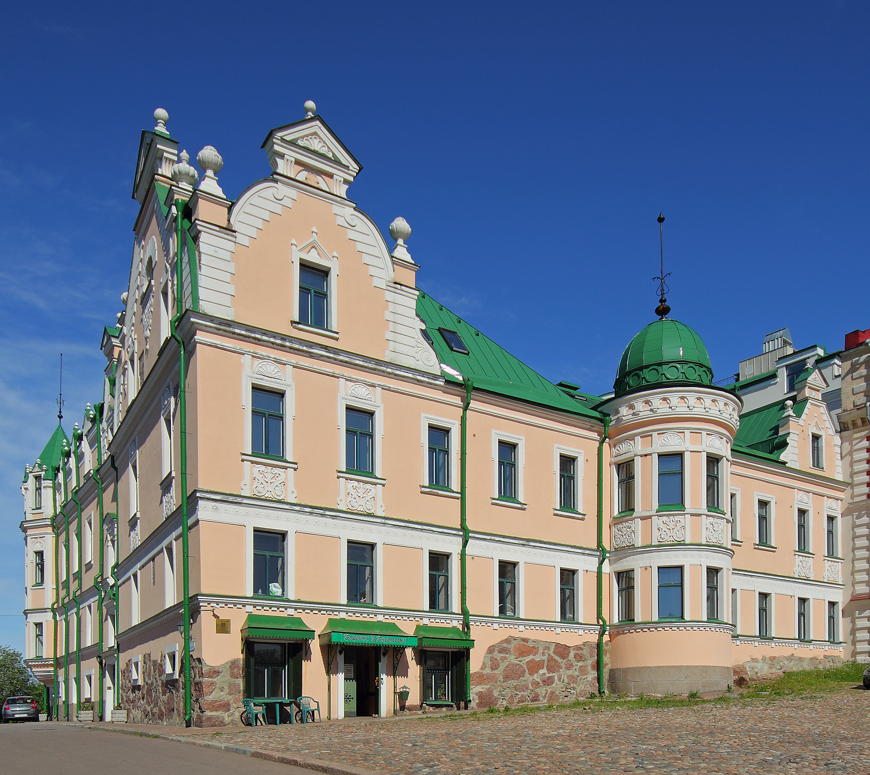 Vyborg (former Viipuri), Leningrad Oblast, Russia. An old house at Ratushnaya Square.